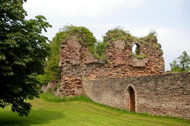 Photograph